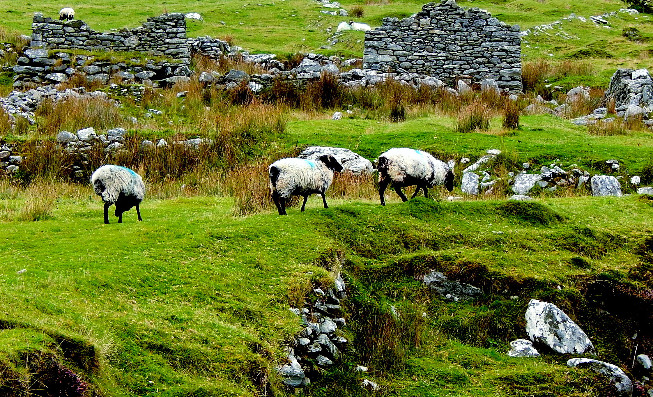 County Mayo - Achill Island - Deserted Village - Grazing Sheep & Derelict Cottage